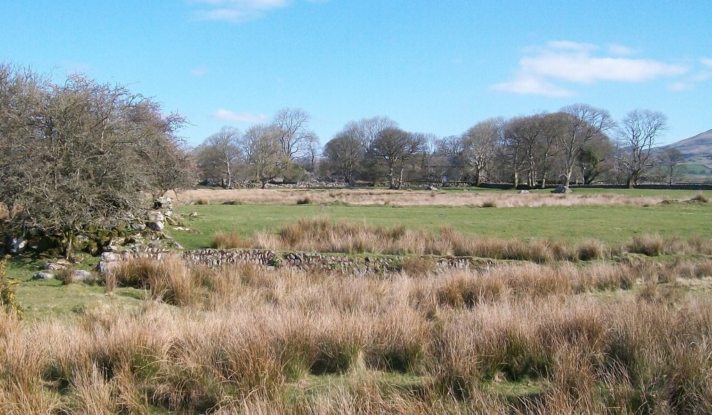 Fferm Clenennau/Clenenney Farm